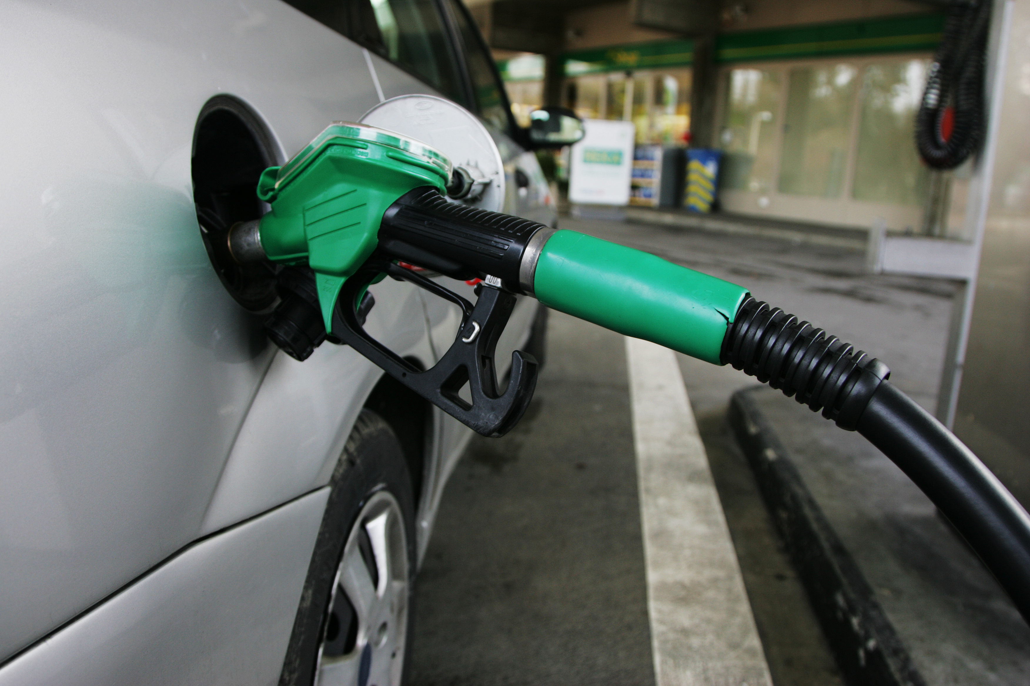 Petrol pumps in a petrol station in Switzerland.